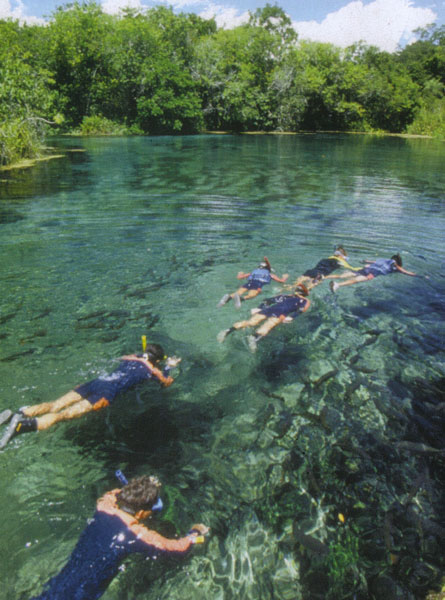 Bonito is in the Sierra do Bodoquena mountains and is famous for it's caving and river activities. Julia went river snorkelling. I was unable to join in, due to a run in with several caipirinihas the night before.